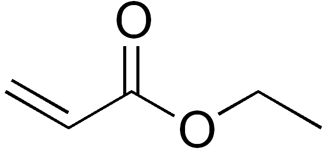 chemical structure of ethyl acrylate